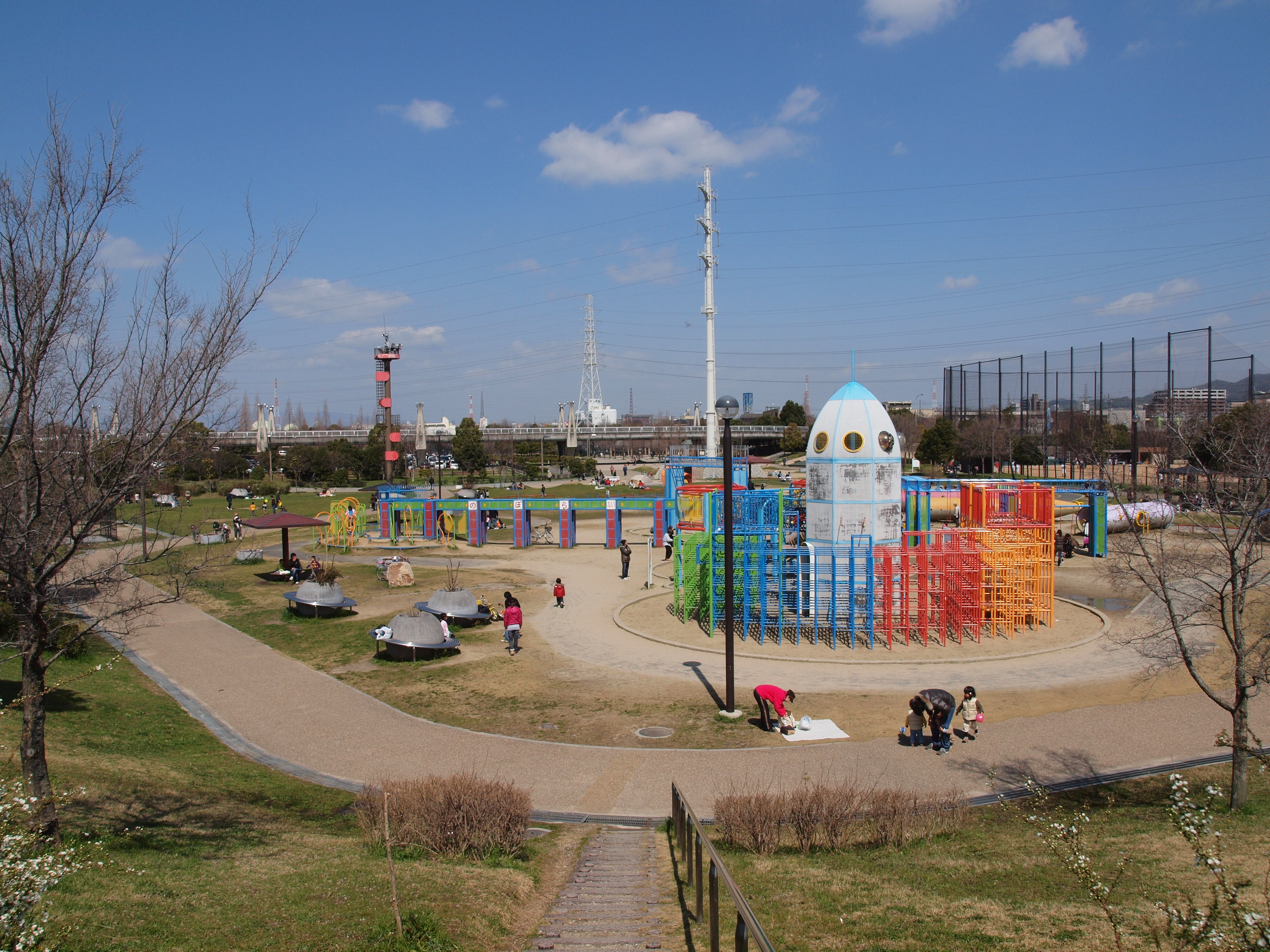 Osaka Prefectural Fukakita Ryokuchi Park